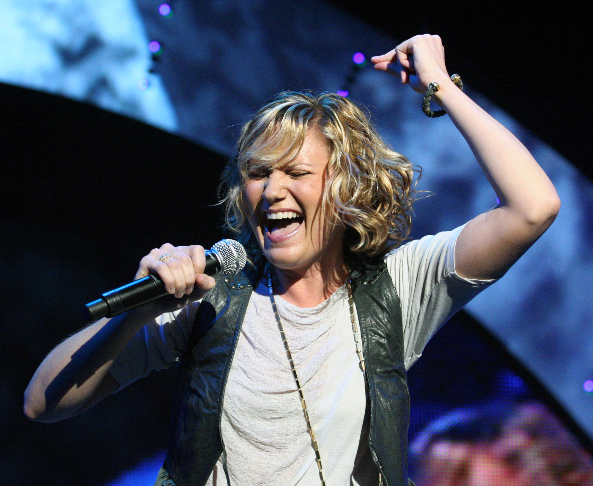 Jennifer Nettles of the American country band Sugarland, in concert, Jacksonville, Florida